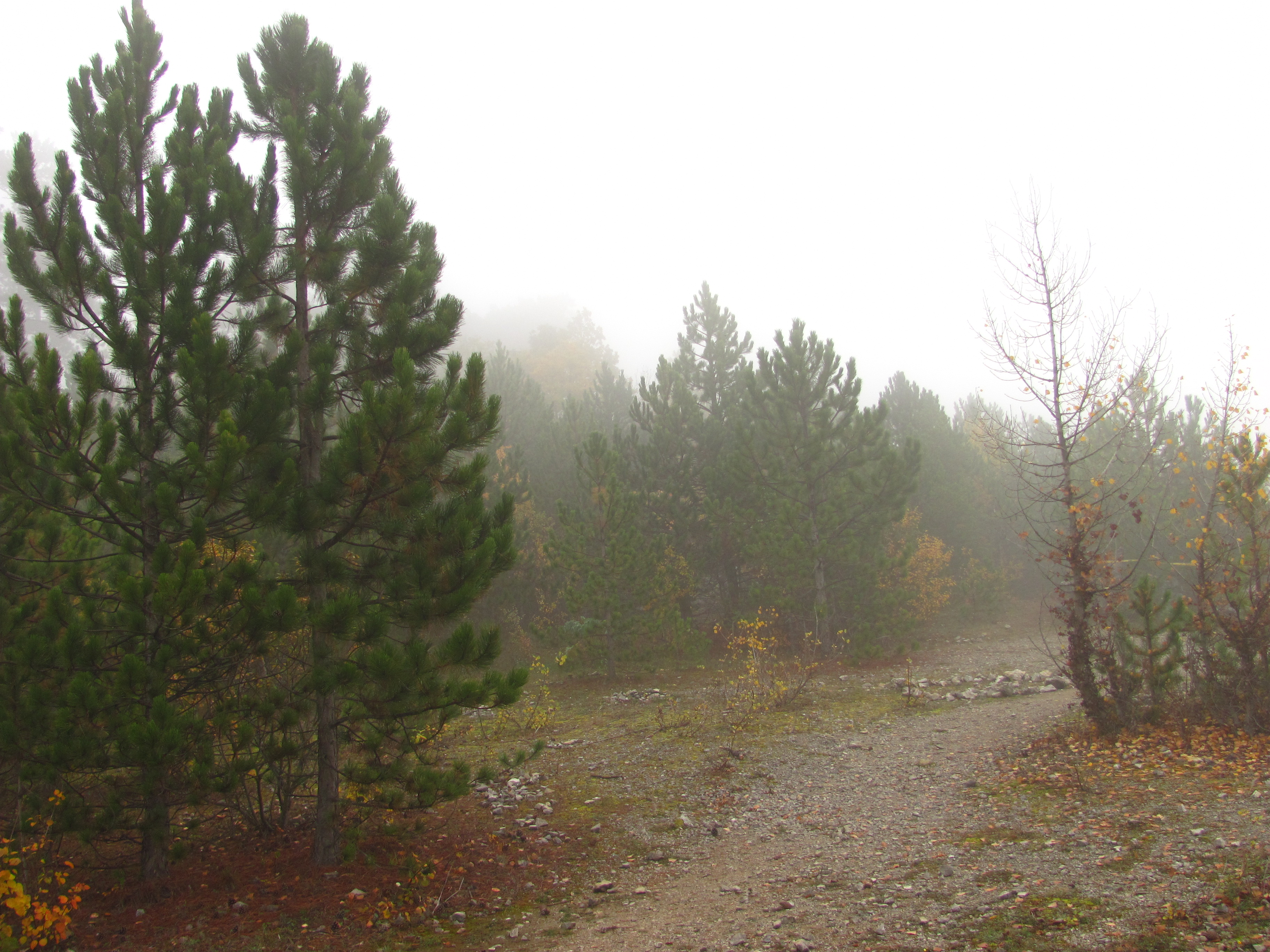 Ingrowthing of open spaces by Pinus nigra, national natural monument Kotýz in Beround District, Czech Republic